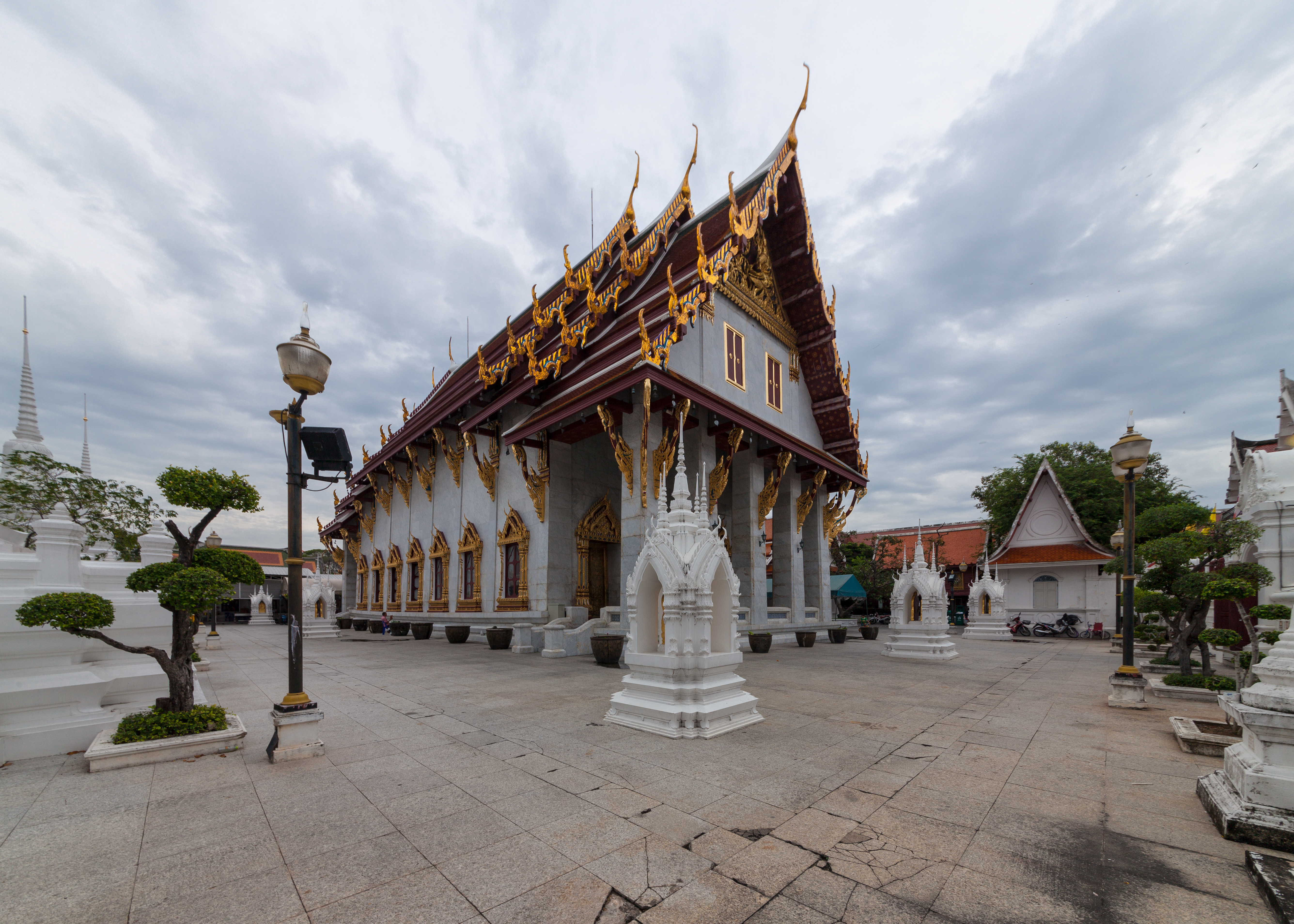 Wat Rakhang Kositaram Woramahawihan, Bangkok Noi district, Bangkok.